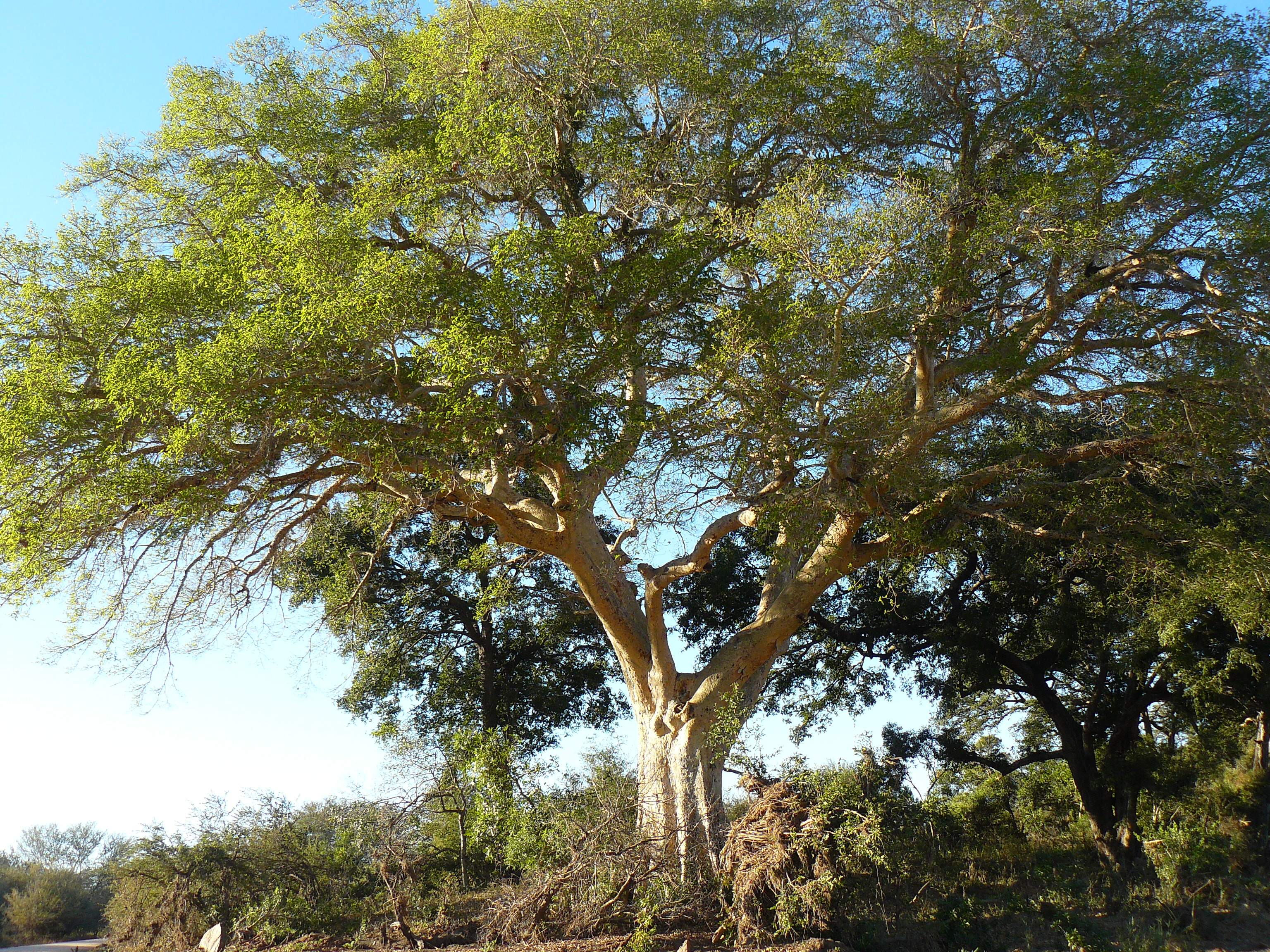 Ficus sycomorus at Kruger National Park, South Africa